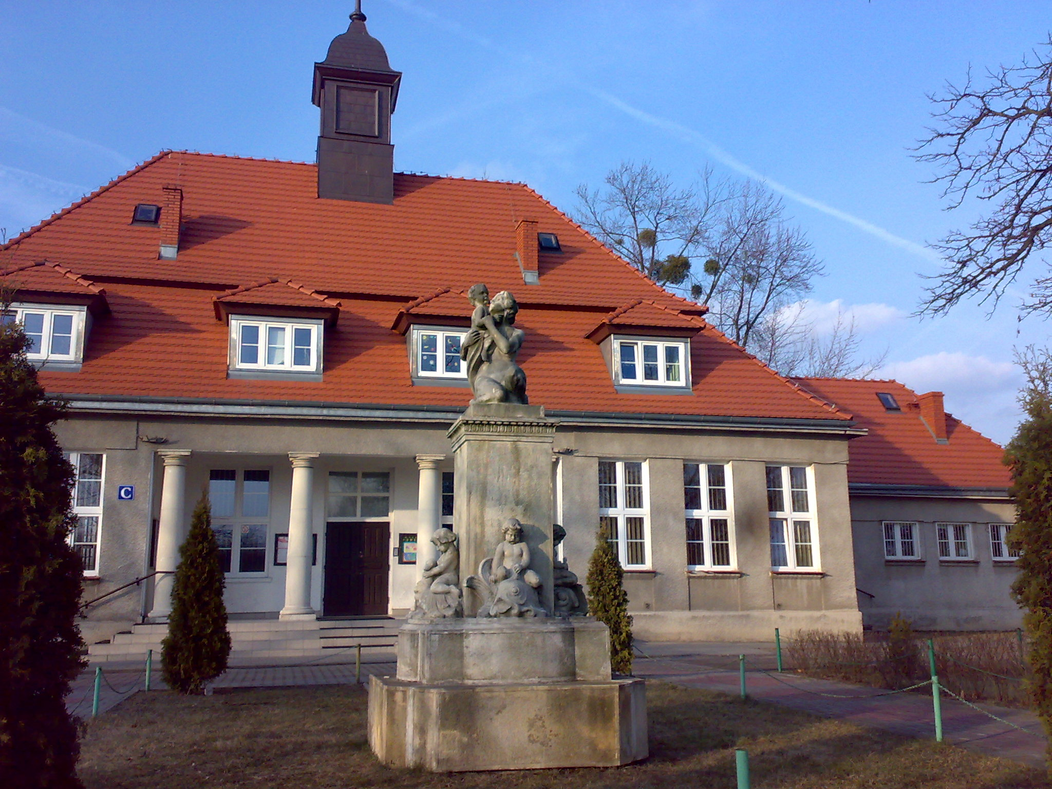 Bielniki district in Poznan.